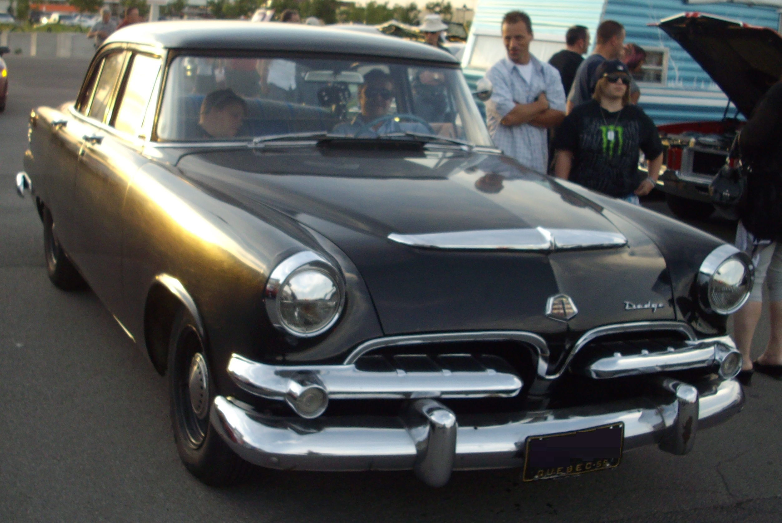 1955 Dodge Coronet photographed in Laval, Quebec, Canada at Les chauds vendredis.